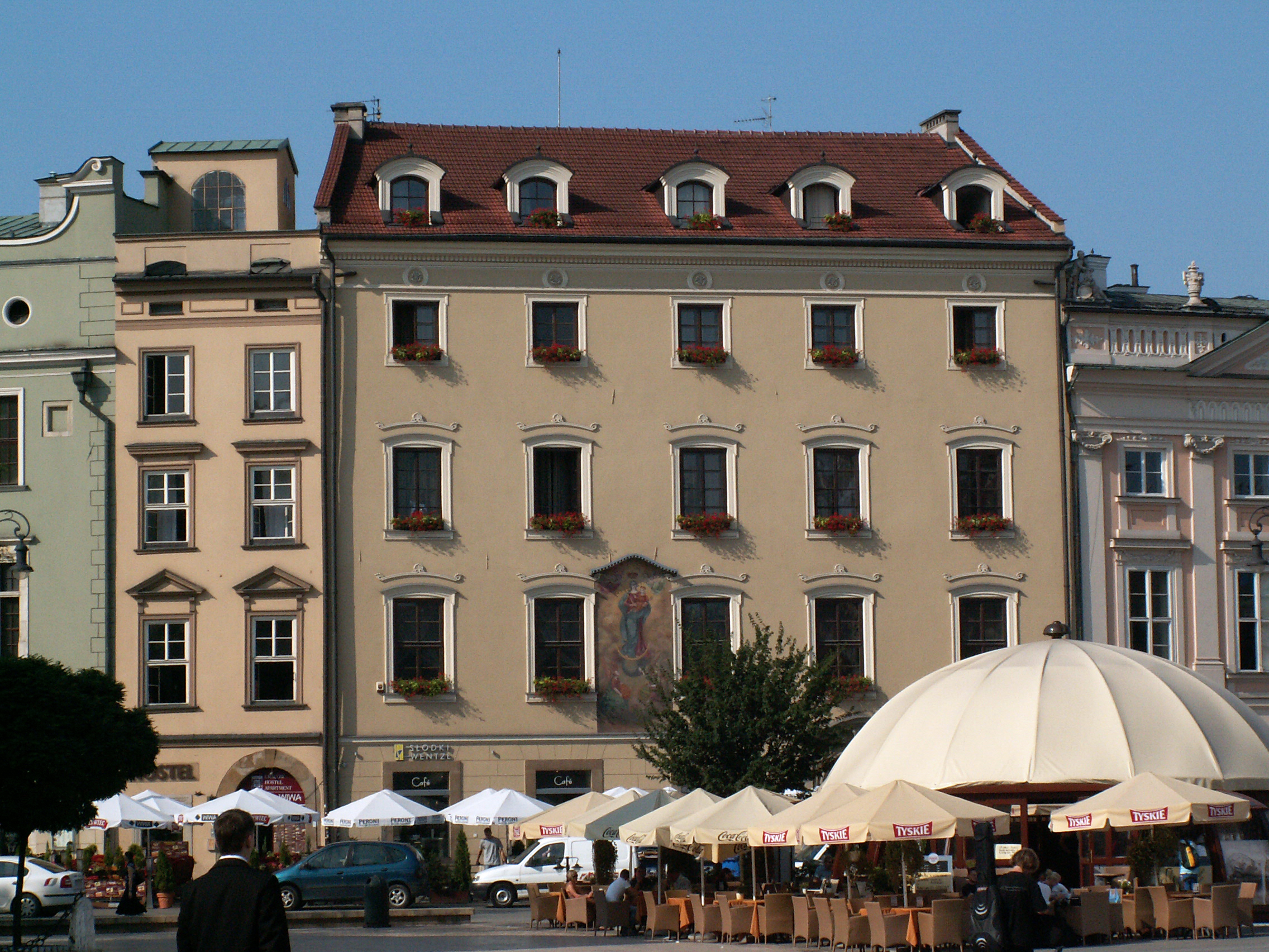 Pod Obrazem house, 19,Main Market Square, Old Town ,Krakow,Poland